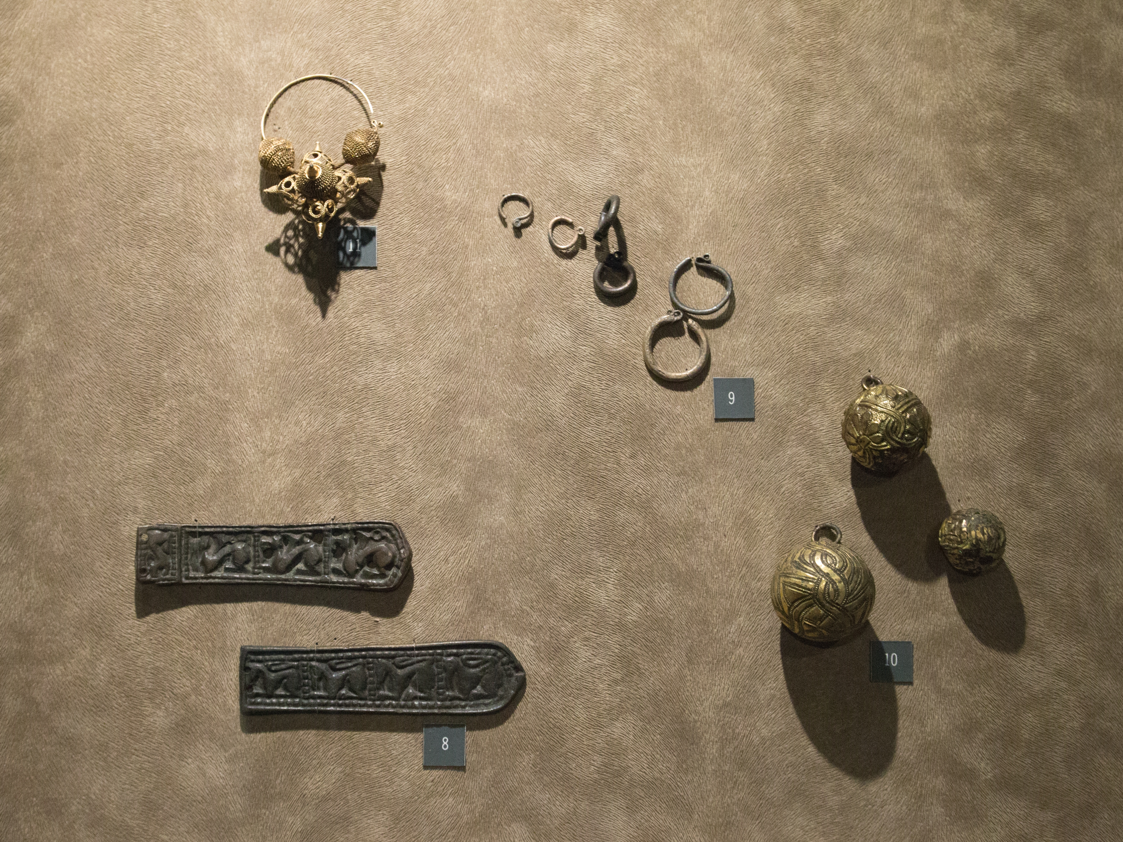 The jewellery of the Slavic period: (8) Cast bronze belt terminal, found in Prague during demolition of the city walls. (9) Silver and bronze temple rings form a cemetery at Praha Motol. Typical Slavic jewellery. (10) Gilded gombik buttons from Žalov near Roztoky. (11) Golden earring from Žalov near Roztoky. The City of Prague Museum.